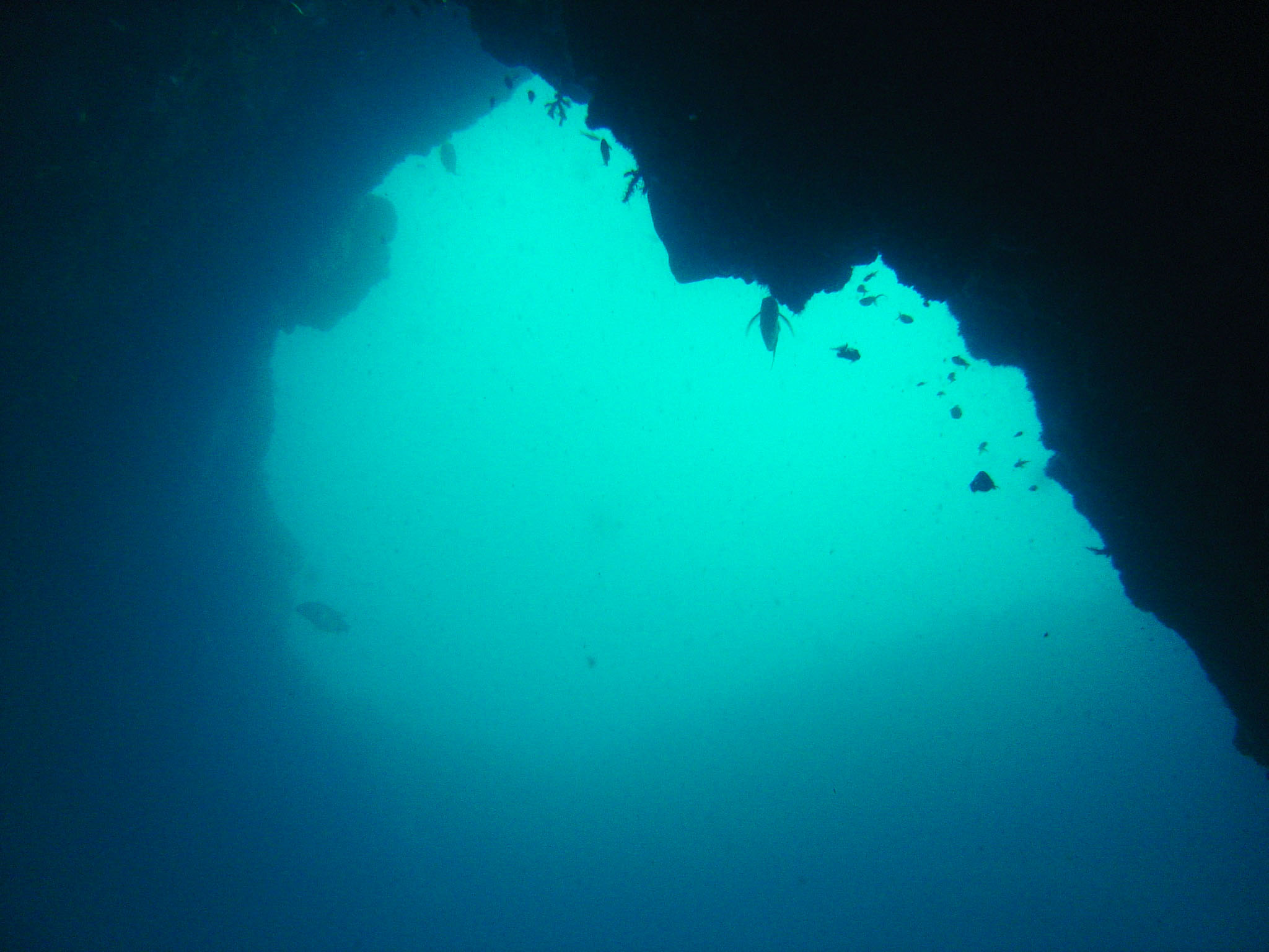 Arch at Cathedra dive site on the Aliwal shoal, near Umkomaas in the Kwa-Zulu-Natal province of South Africa.